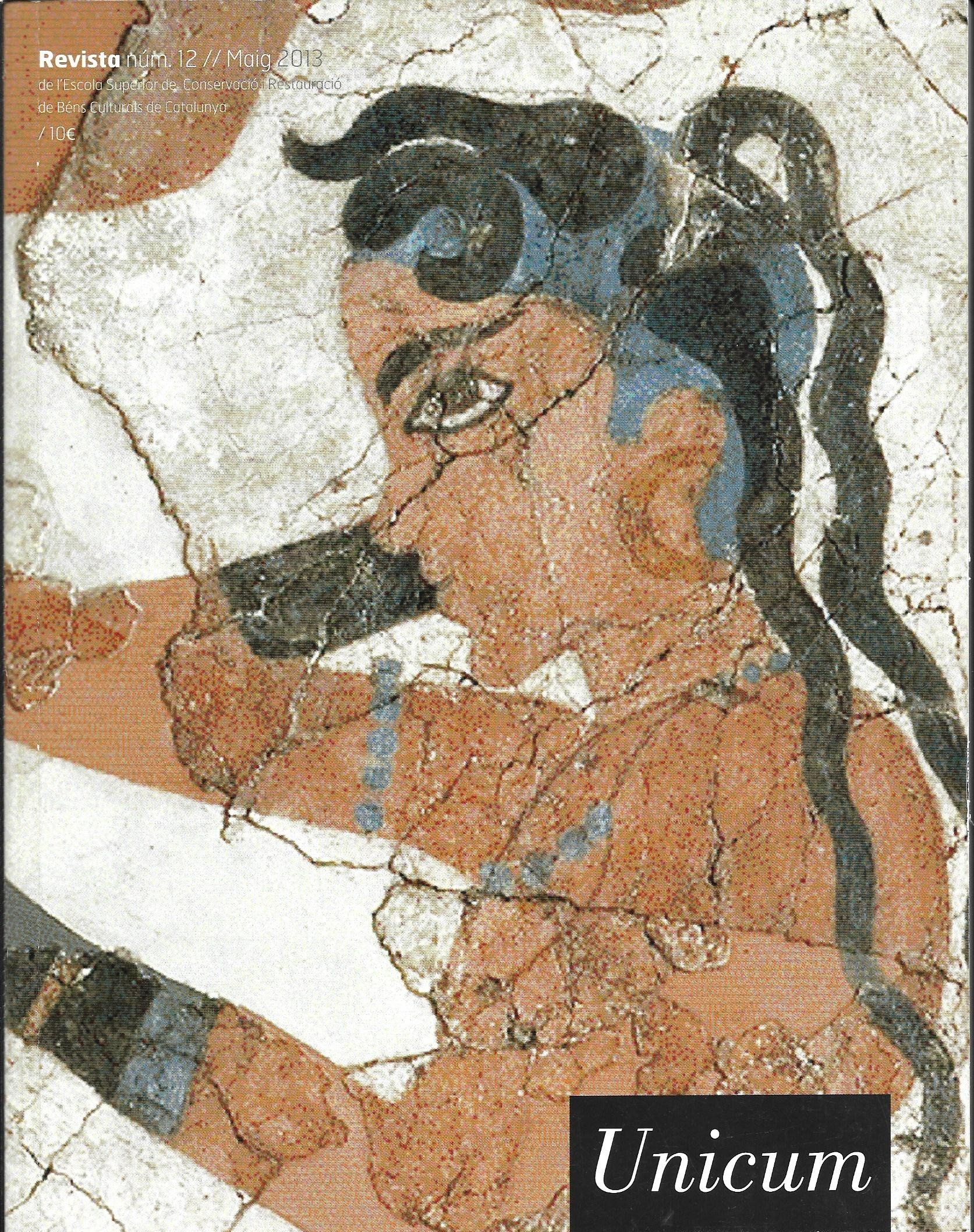 Cover of the issue number 12 (year 2013) of "Unicum", Magazine published in Barcelona by Escola Superior de Conservació i Restauració de Béns Culturals de Catalunya ESCRBCC